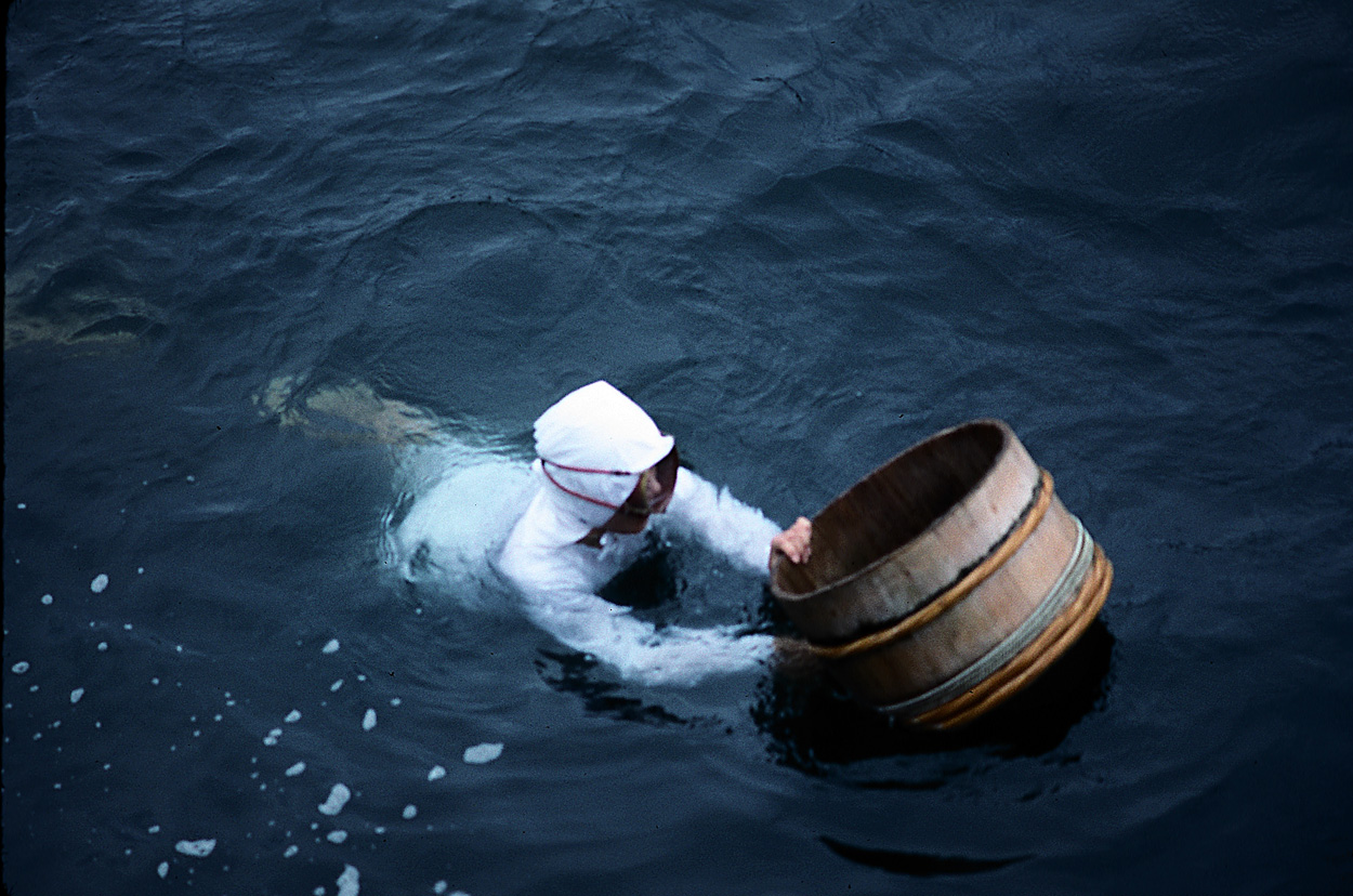 Ama (pearl diver) in Japan.